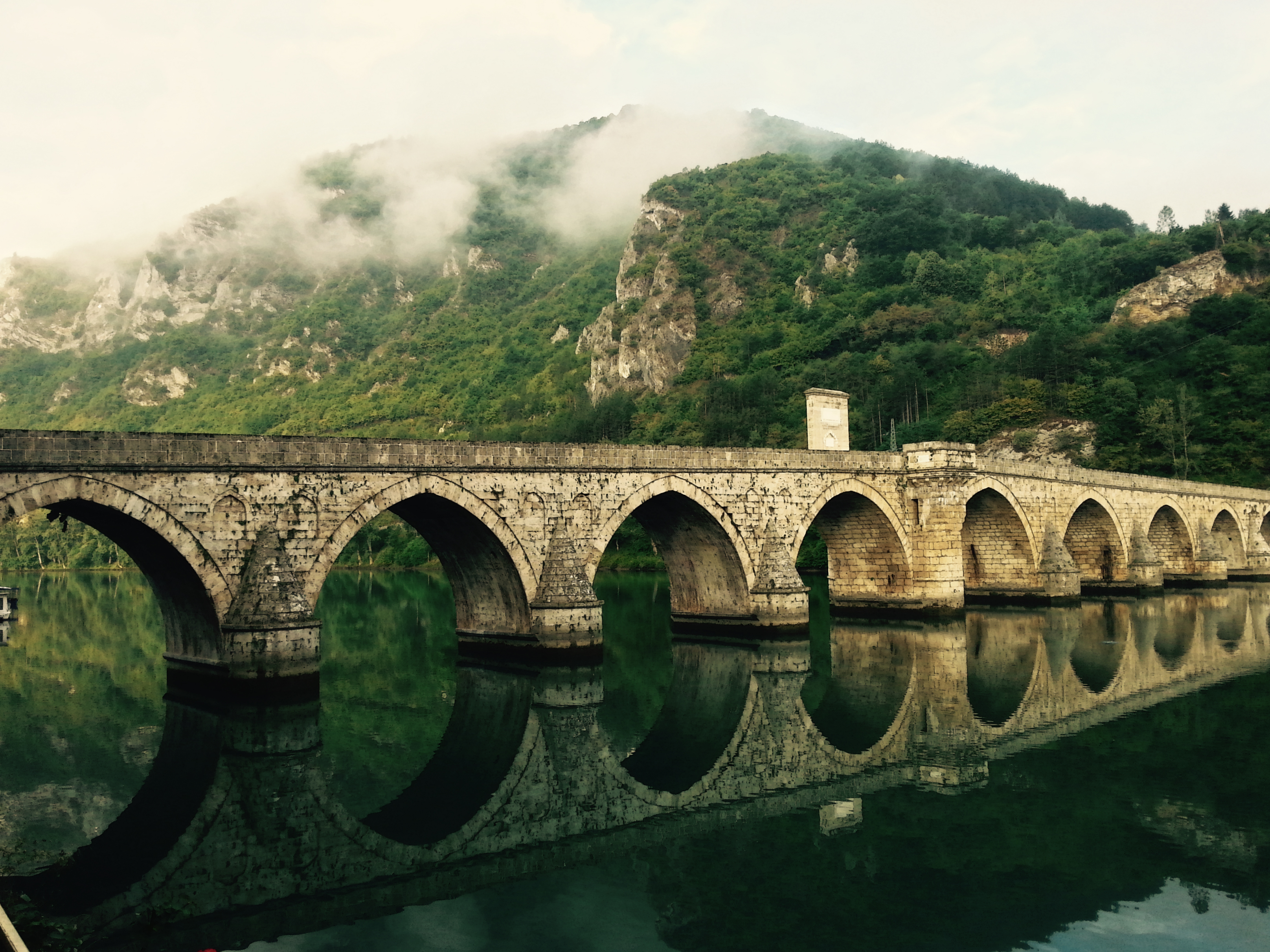 Višegrad, Bosnia and Herzegovina